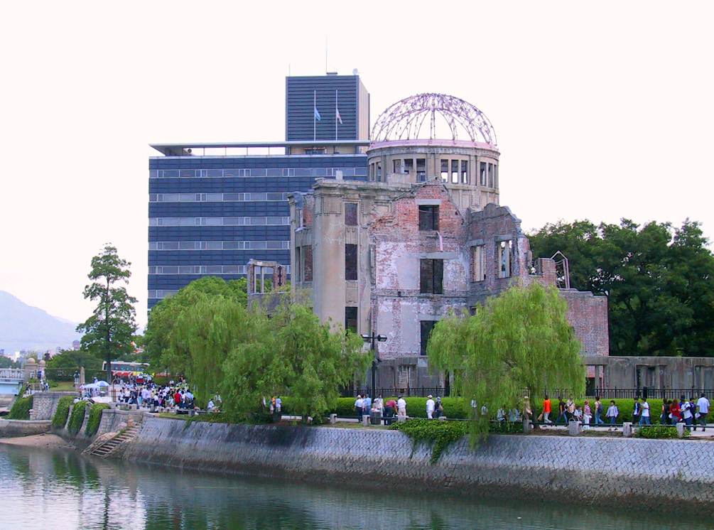 Close-up of the A-Bomb Dome in Hiroshima, Japan (see also Image:A-Bomb Dome.jpg)